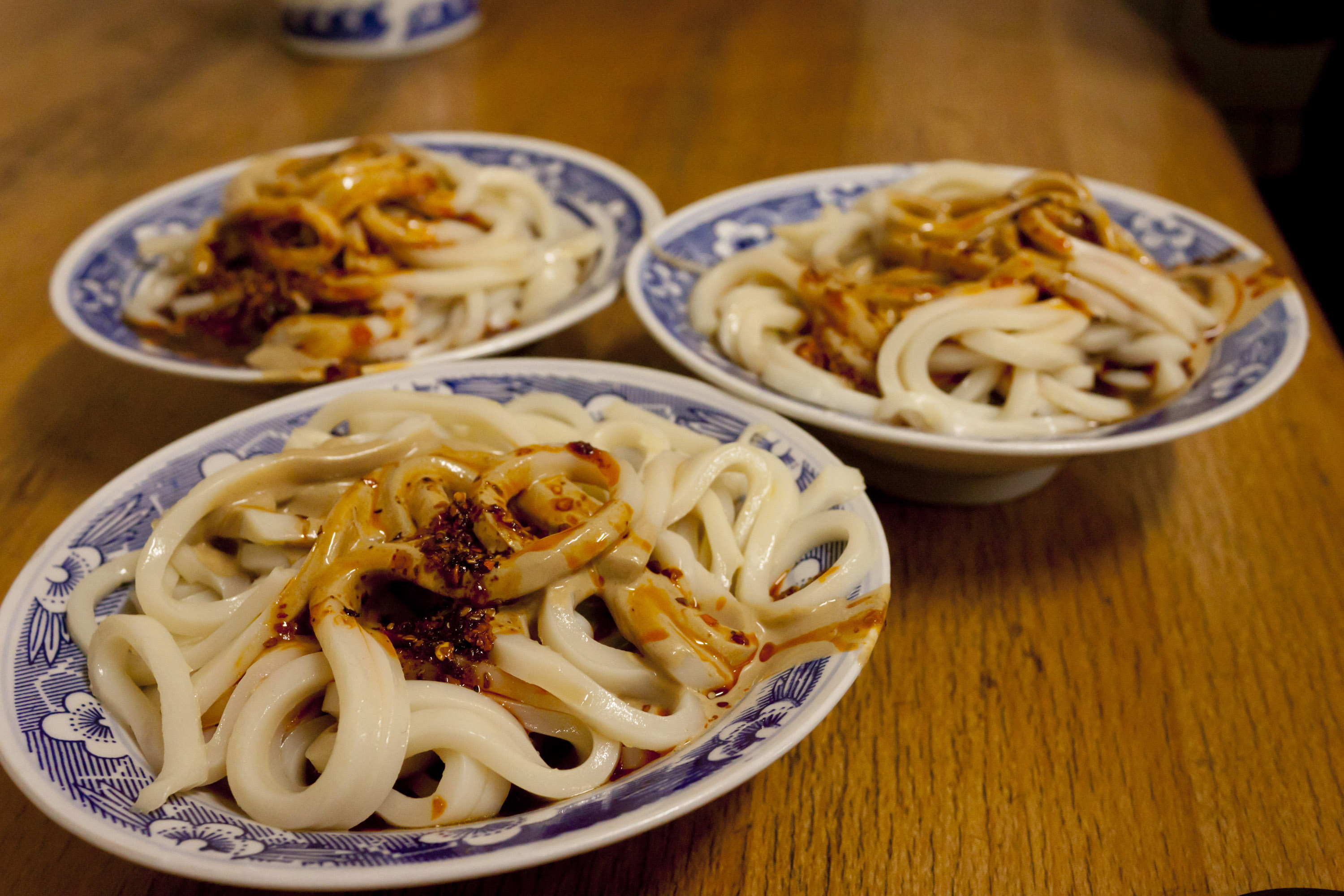 3 bowls of Liangpi